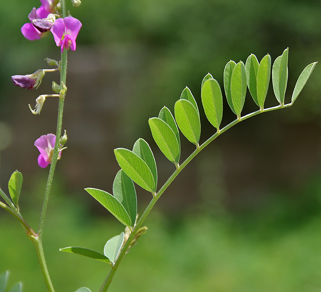 Unhali, Sarphonk or Wild Indigo Tephrosia purpurea in Hyderabad , India.